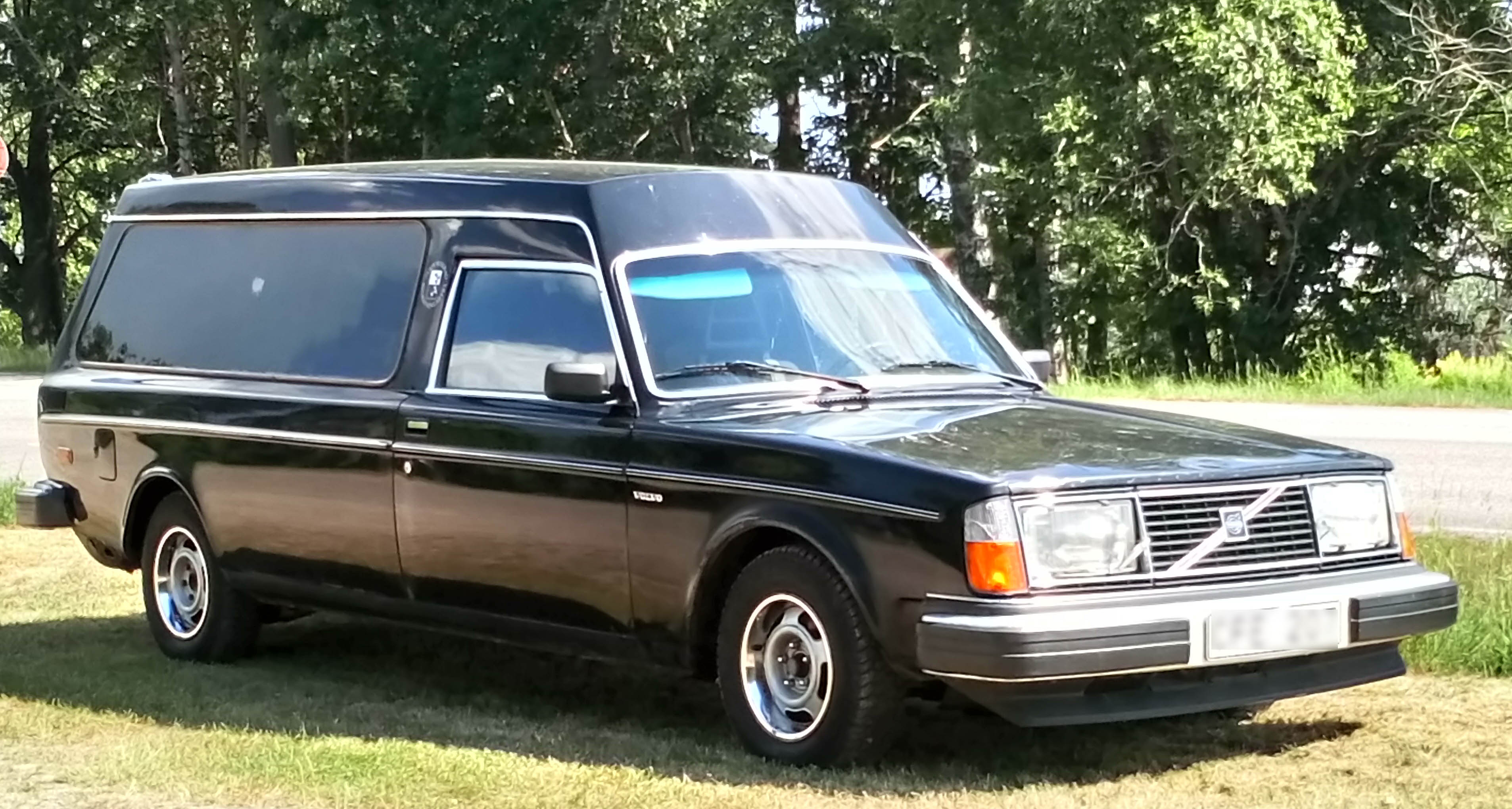 1980 Volvo 245 Hearse